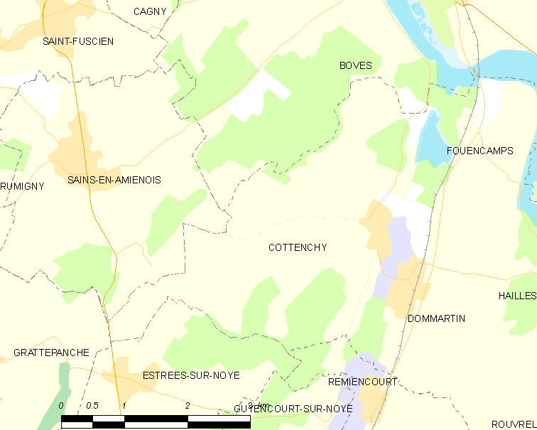 Map of French municipality Cottenchy